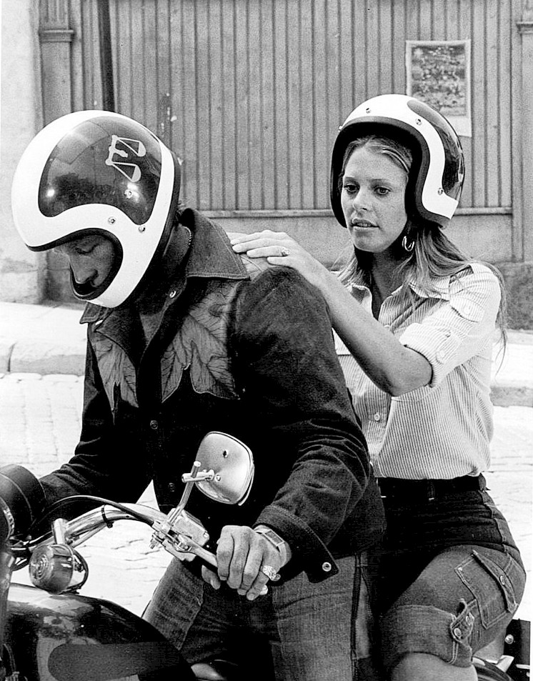 Photo of Lindsay Wagner as Jamie Sommers and guest star Evel Knievel from the television program The Bionic Woman. She asks a passing motorcyclist (Knievel) to take her from West Berlin into East Germany.